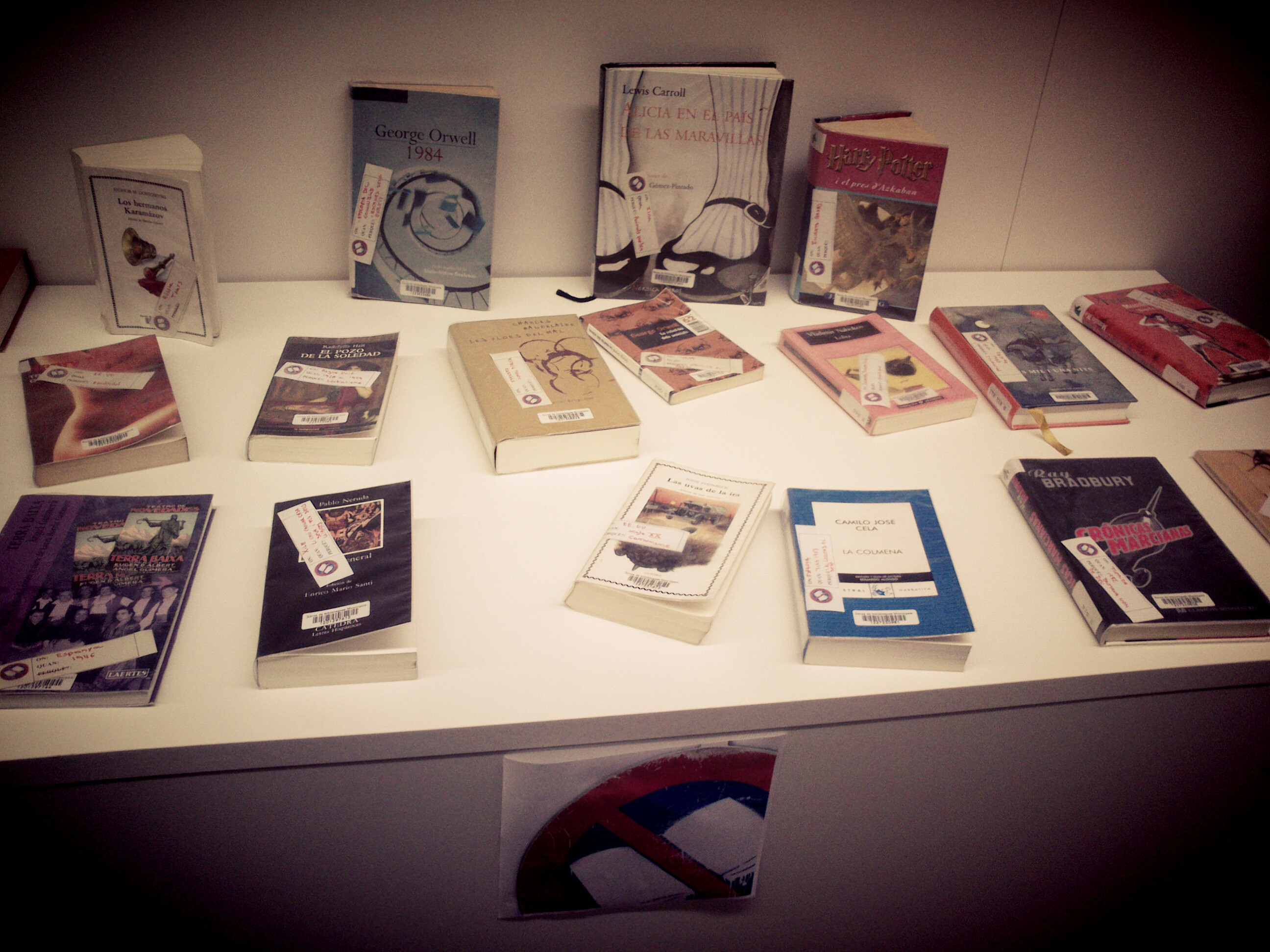 Exposició de Llibres prohibits a la Biblioteca del Sud